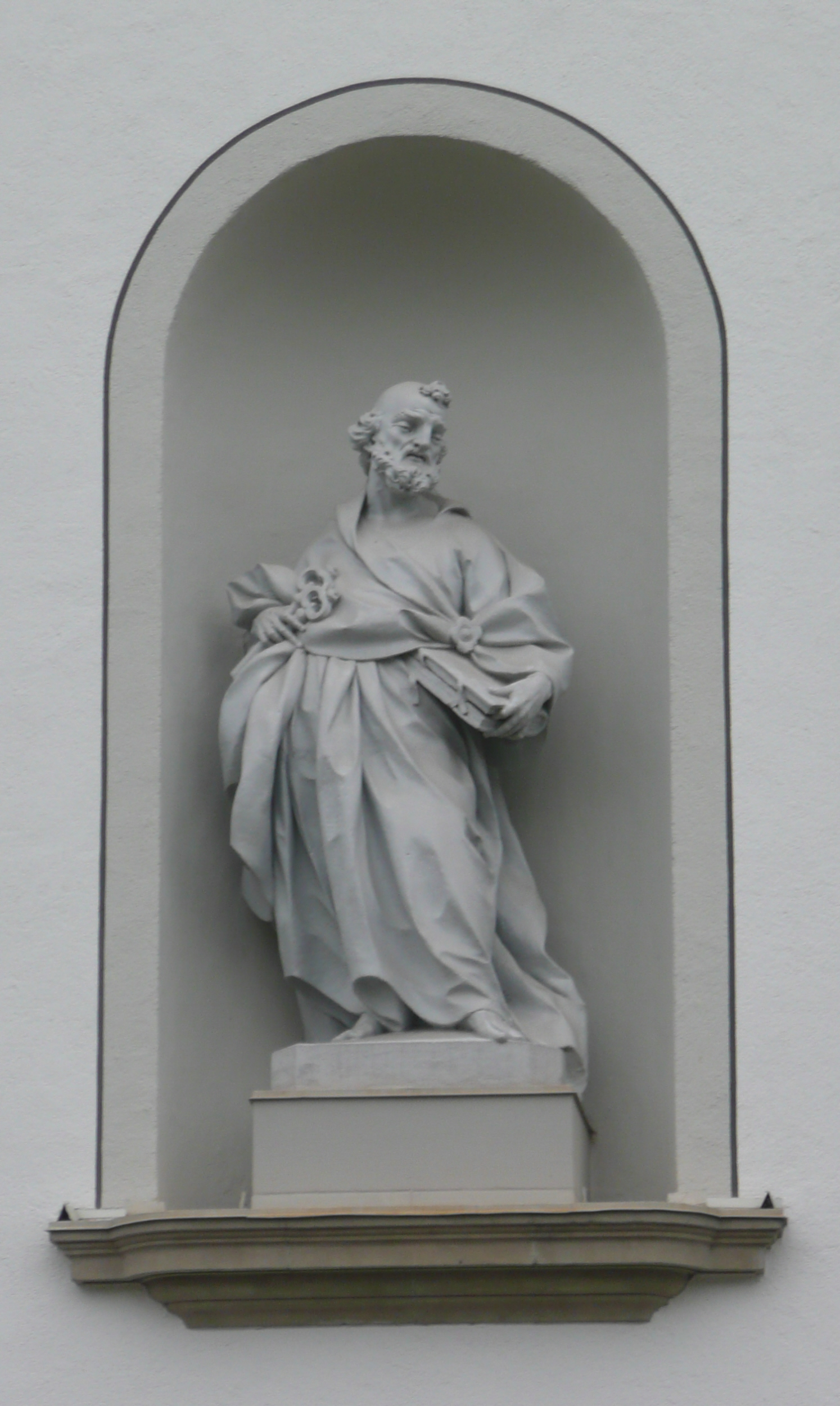 Statue of Saint Petrus on the Wall of the Abbey of St. Gall